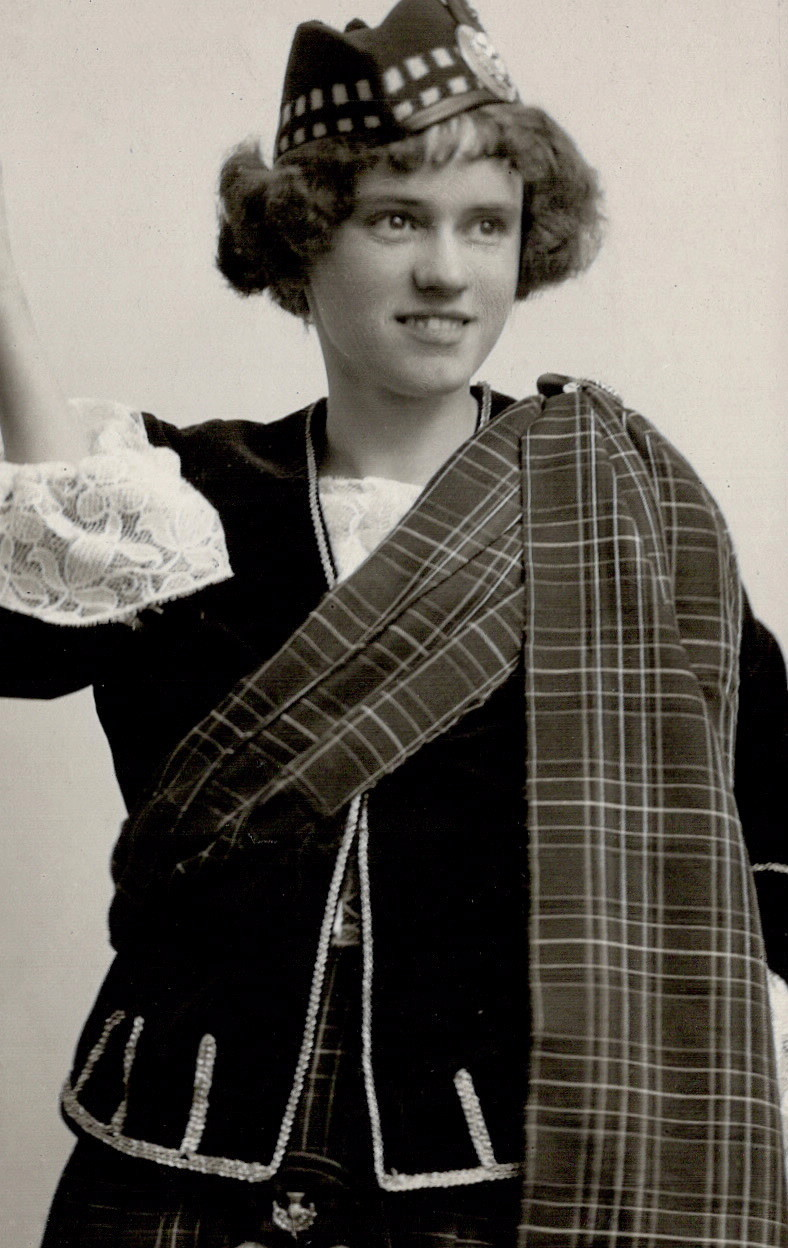 Jim Eustace Smith